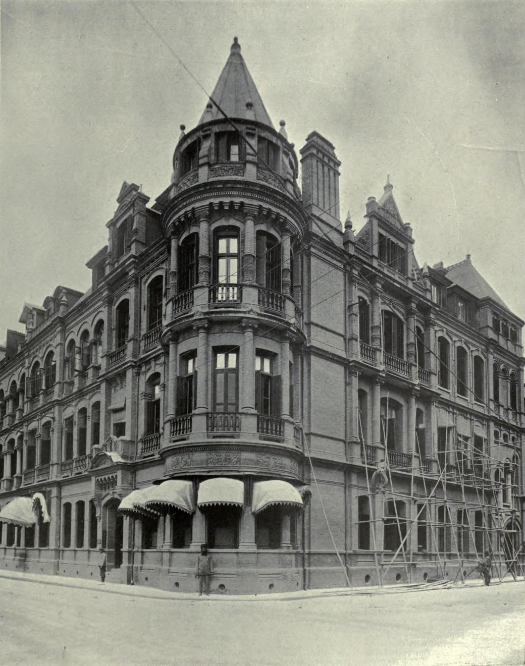 The headquarters of Gibb, Livingstone & Co in Shanghai.